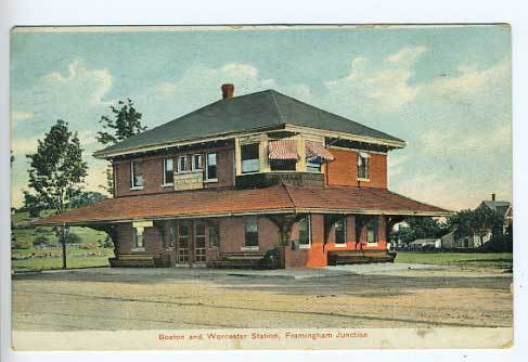 Early undivided back postcard of the Boston & Worcester Street Railway's Framingham Junction station